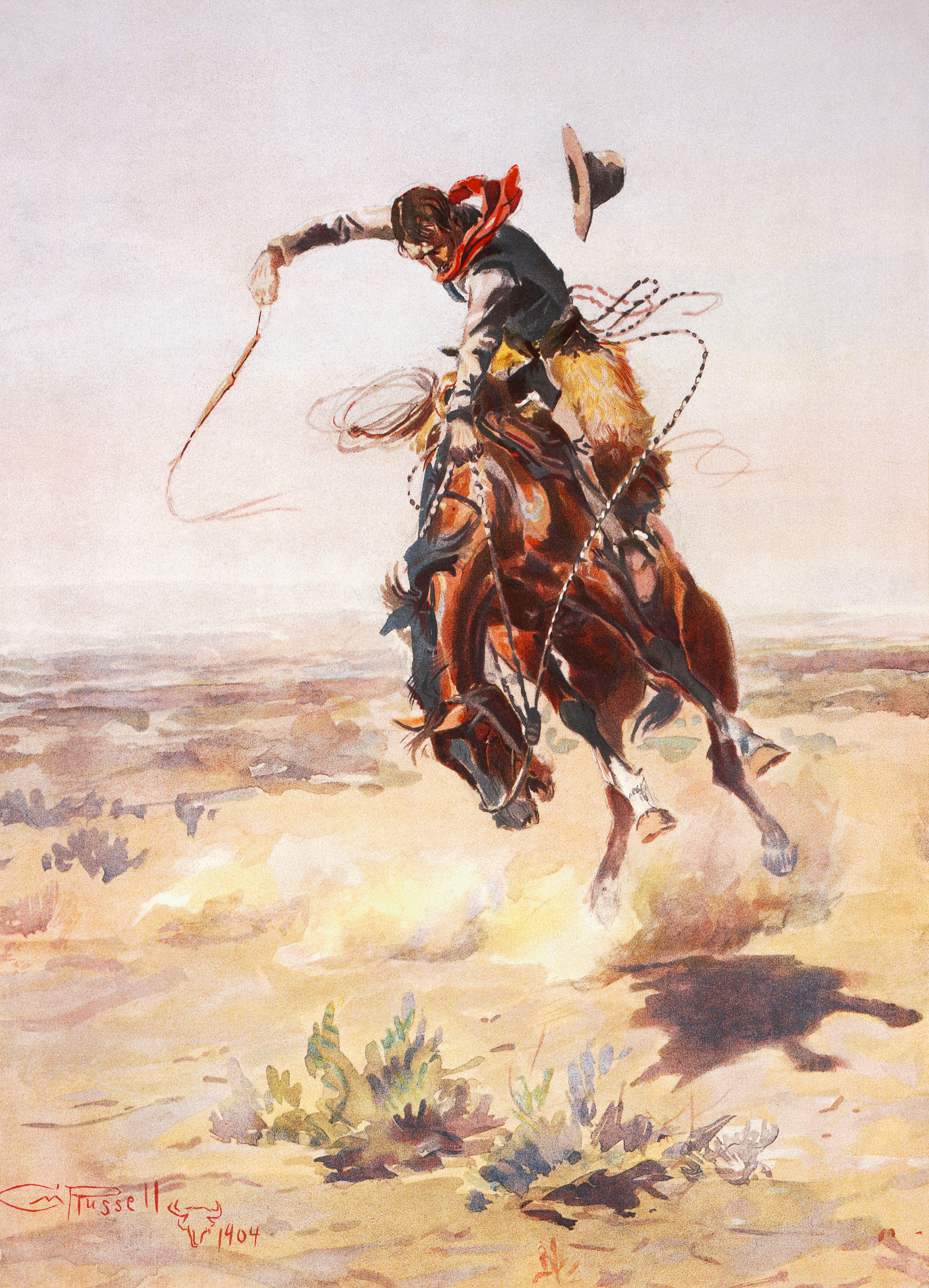 "A bad hoss" by Charles Marion Russell. Lithograph. Compare the central figure in his later, 1912 work, "A bronc to breakfast".